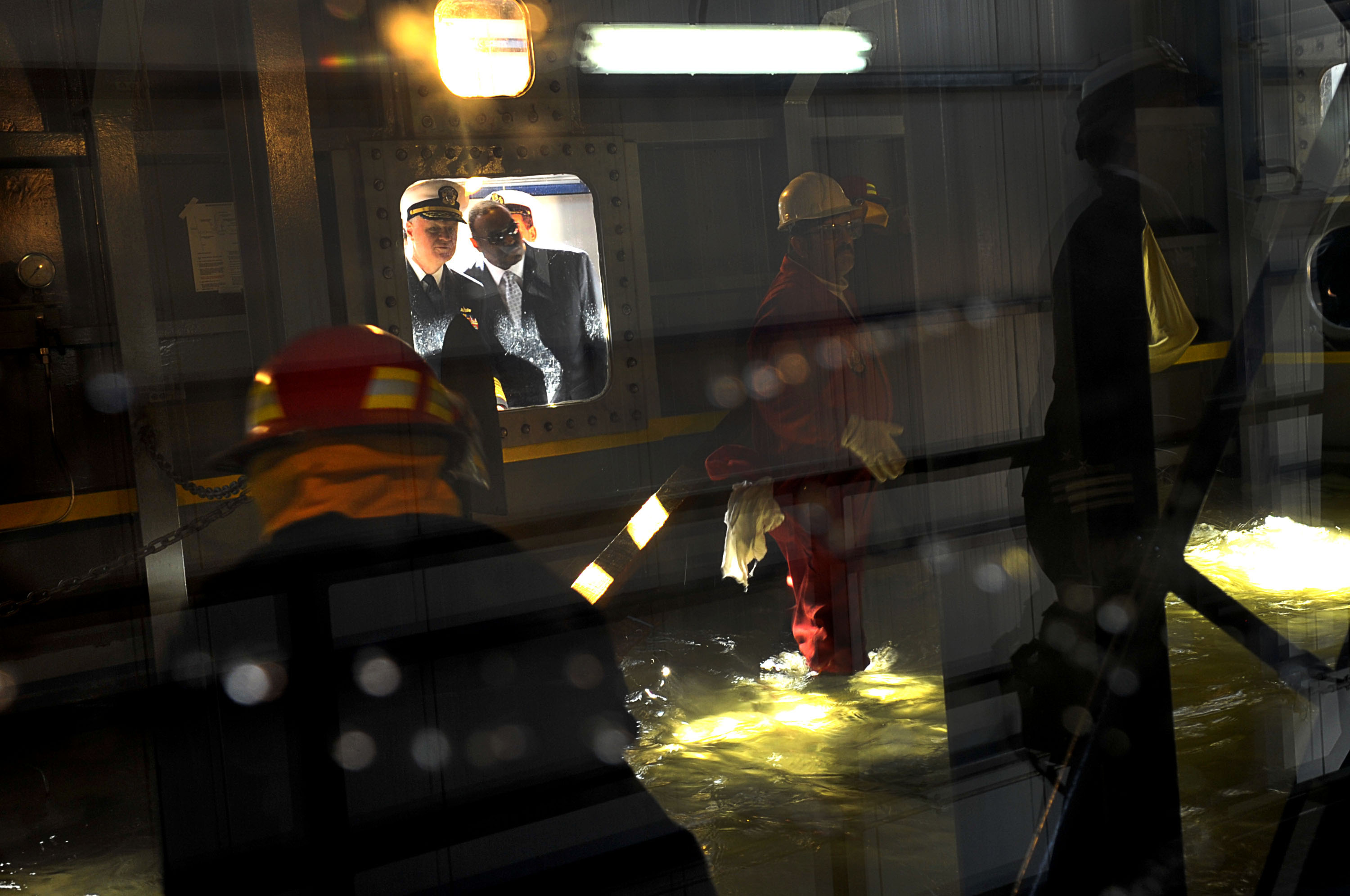 ALEXANDRIA, Egypt (Nov. 12, 2009) Chief of Naval Operations (CNO) Adm. Gary Rouhgead watches a demonstration of the wet trainer at the firefighting school at Abu Qir Naval Base, Alexandria, Egypt. (U.S. Navy photo by Mass Communication Specialist 1st Class Tiffini Jones Vanderwyst/Released)